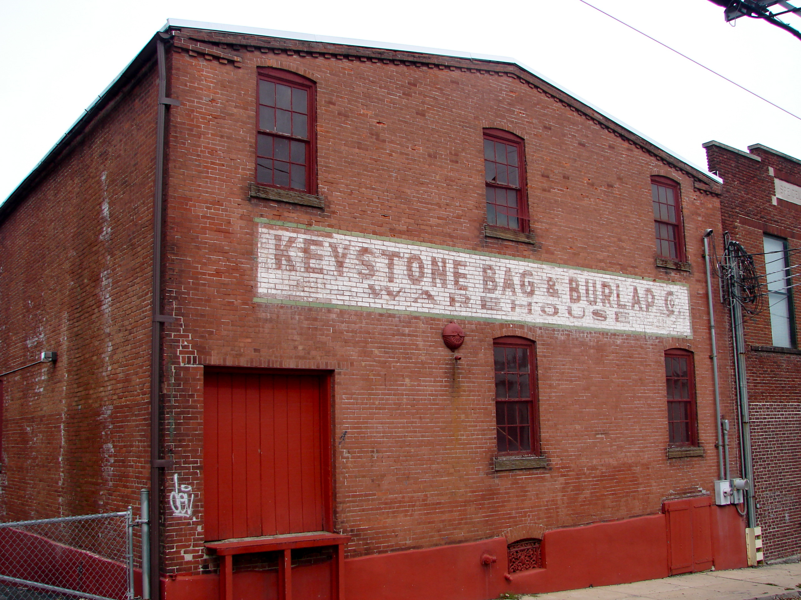 R. K. Schnader & Sons Tobacco Warehouse, on the NRHP since September 21, 1990. Part of the Lancaster Tobacco Warehouse multiple listing. At 437–439 West Grant Street, Lancaster, Pennsylvania, just a couple doors down from another Schnader warehouse also on the NRHP. In the Chestnut Hill neighborhood.